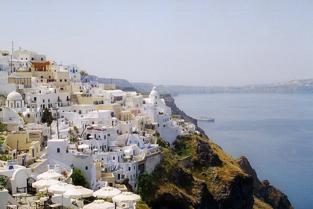 Santorini, Oia, Greece